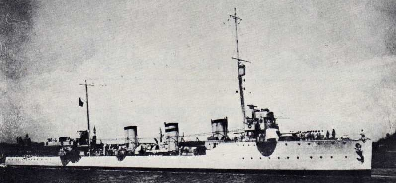 Italian scout cruiser Sparviero 2 years before being sold to Romania and renamed Mărăști